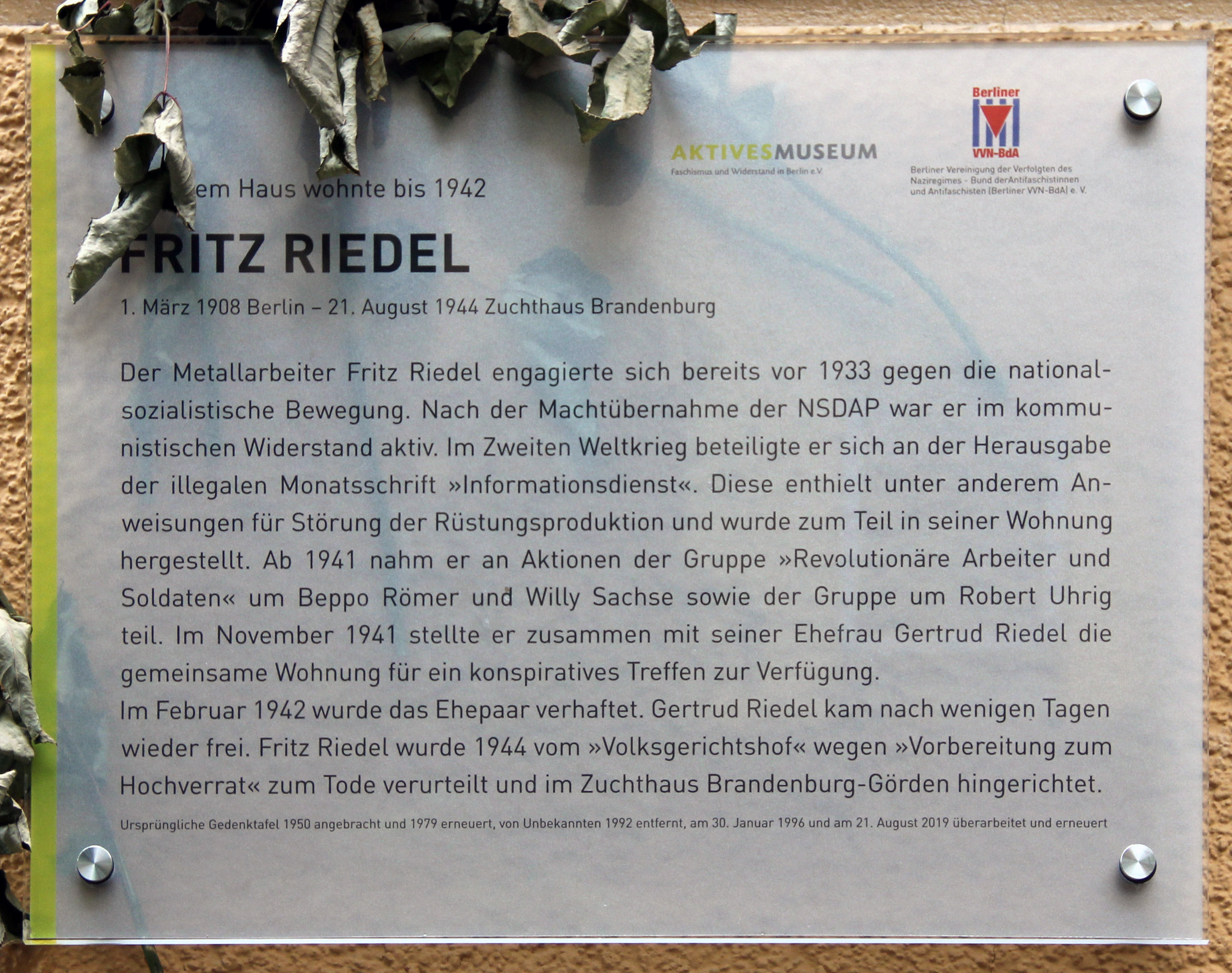 Memorial plaque, Fritz Riedel, Rigaer Straße 64, Berlin-Friedrichshain, Deutschland